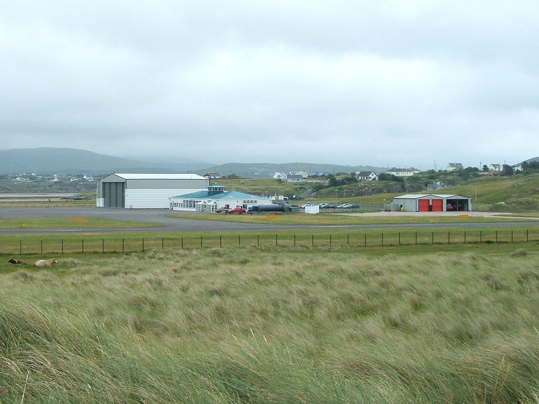 Donegal Airport CFN EIDL at Carrickfinn, County Donegal, Ireland. Runway (threshold), hangar, main building, parking lots and garage of the fire brigade seen from the beach.